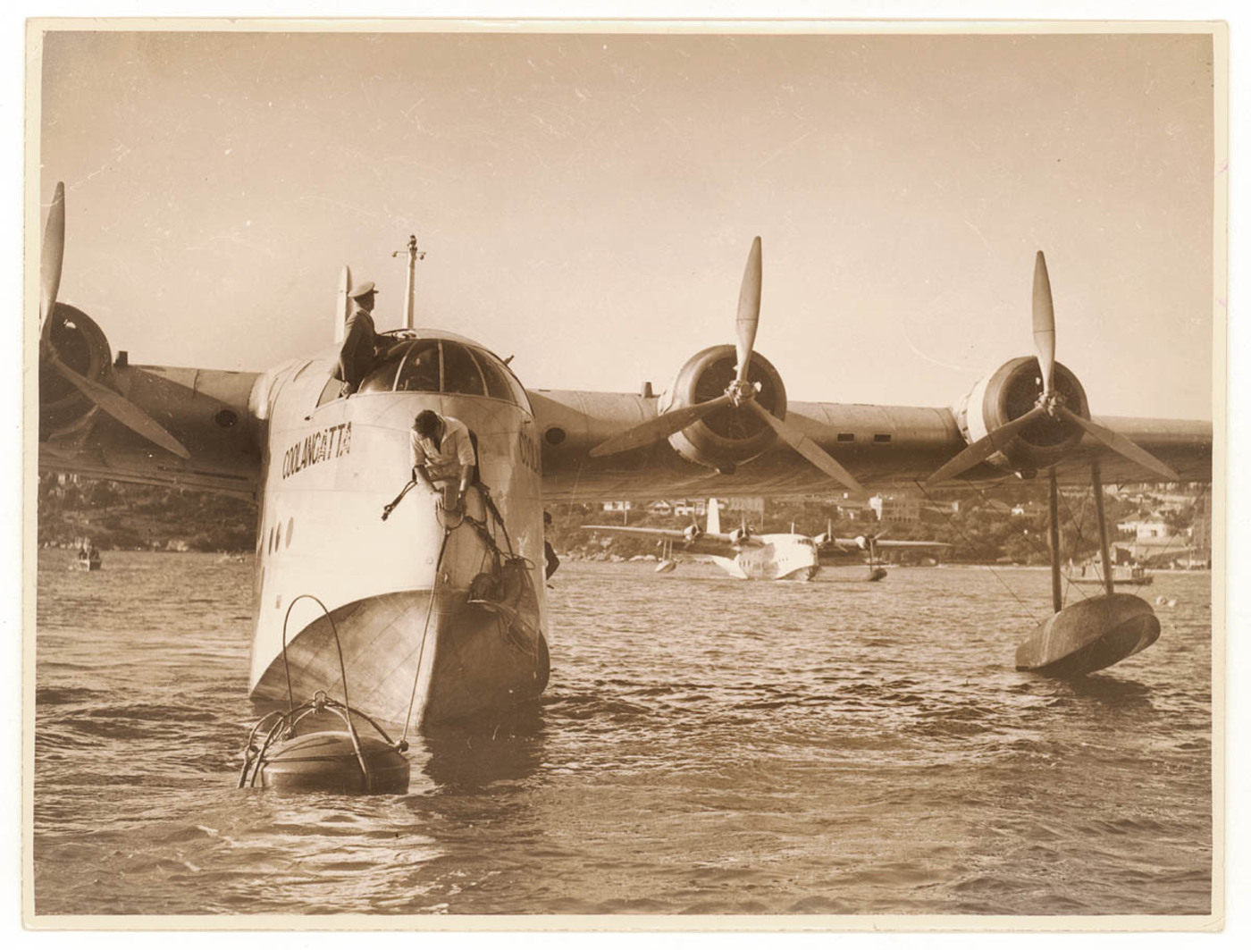 Format: Black & white photoprint From the collections of the Mitchell Library, State Library of New South Wales Information about photographic collections of the State Library of New South Wales: .au/search/SimpleSearch.aspx Persistent url: .au/album/albumView.aspx?acmsID=153389&...